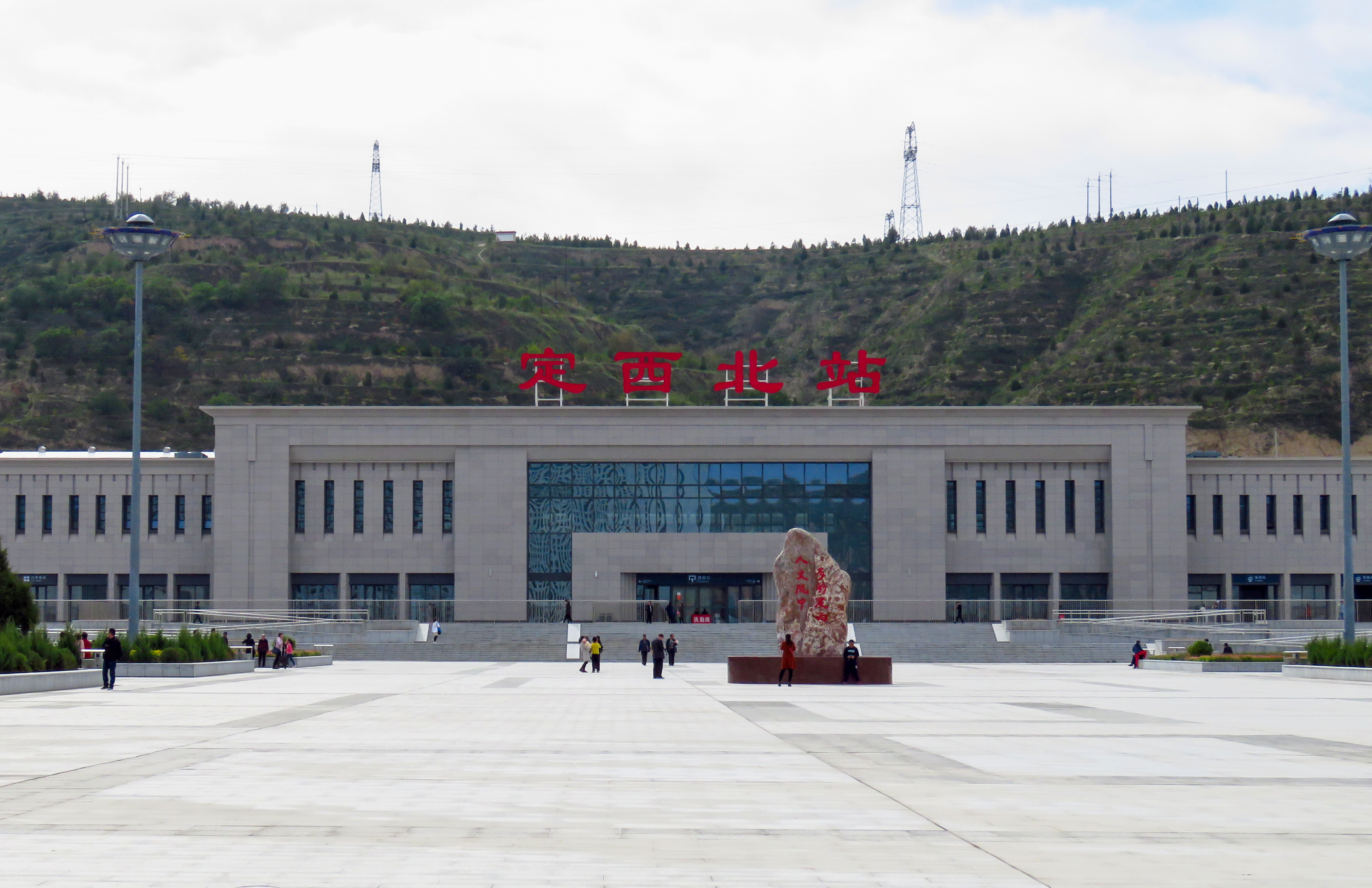 Dingxi North, just three months old, officially Dingxibei according to CR's English naming regulation for railway stations. Then comes a matter of phrase segmentation: "定西北" can be viewed as "Dìngxī běi" (Dingxi North) or "Dìng xīběi" (subdue the northwest), and another station happened to run into the same matter, that's "镇江南" (Zhenjiangnan). If the segmentation is Zhèn Jiāngnán, then it means defending Jiangnan, south of the lower reaches of the Yangtze River. So there's sugar: Imagine a general who has conquered the northwest and the east... Interestingly enough, a train happened to serve both two stations which are involved in this matter: G1972 from Lanzhouxi to Shanghai Hongqiao, promoting this meme even to People's Daily. Second class fare from Dingxibei to Zhenjiangnan is CNY 716.50. Maybe one day they could become sister stations...